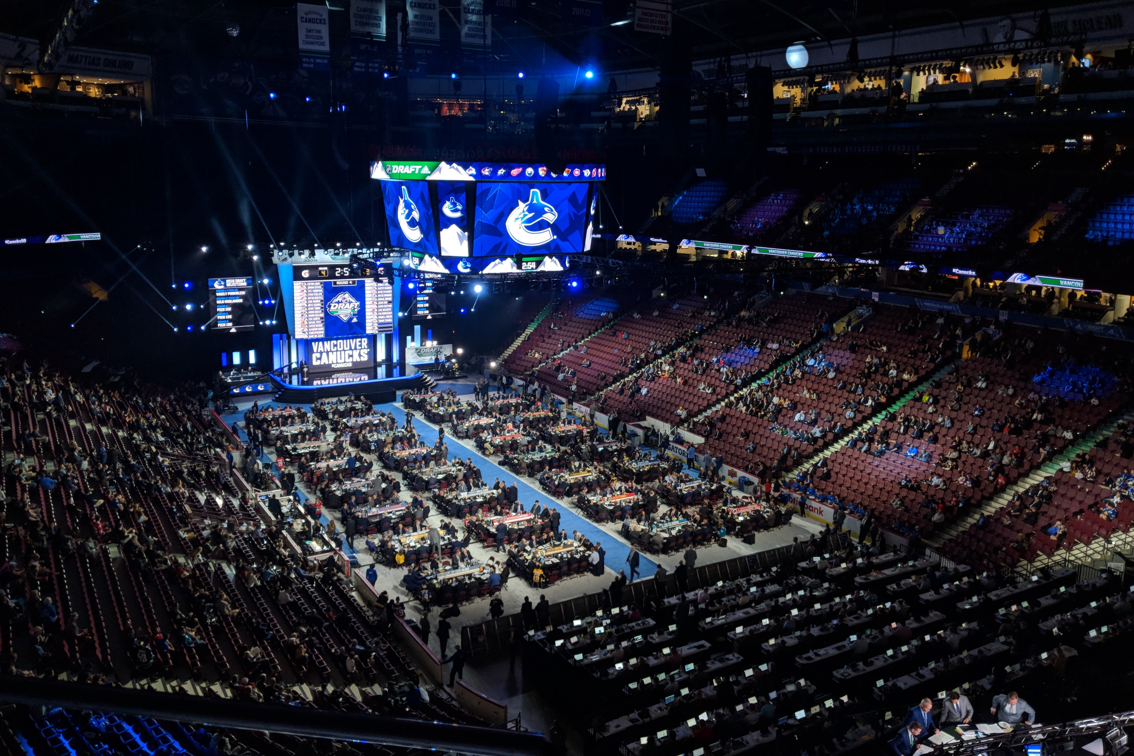 Interior of Rogers Arena prior to the Vancouver Canucks selecting Ethan Keppen by using the 122nd overall pick of the 2019 NHL Entry Draft. June 2019.